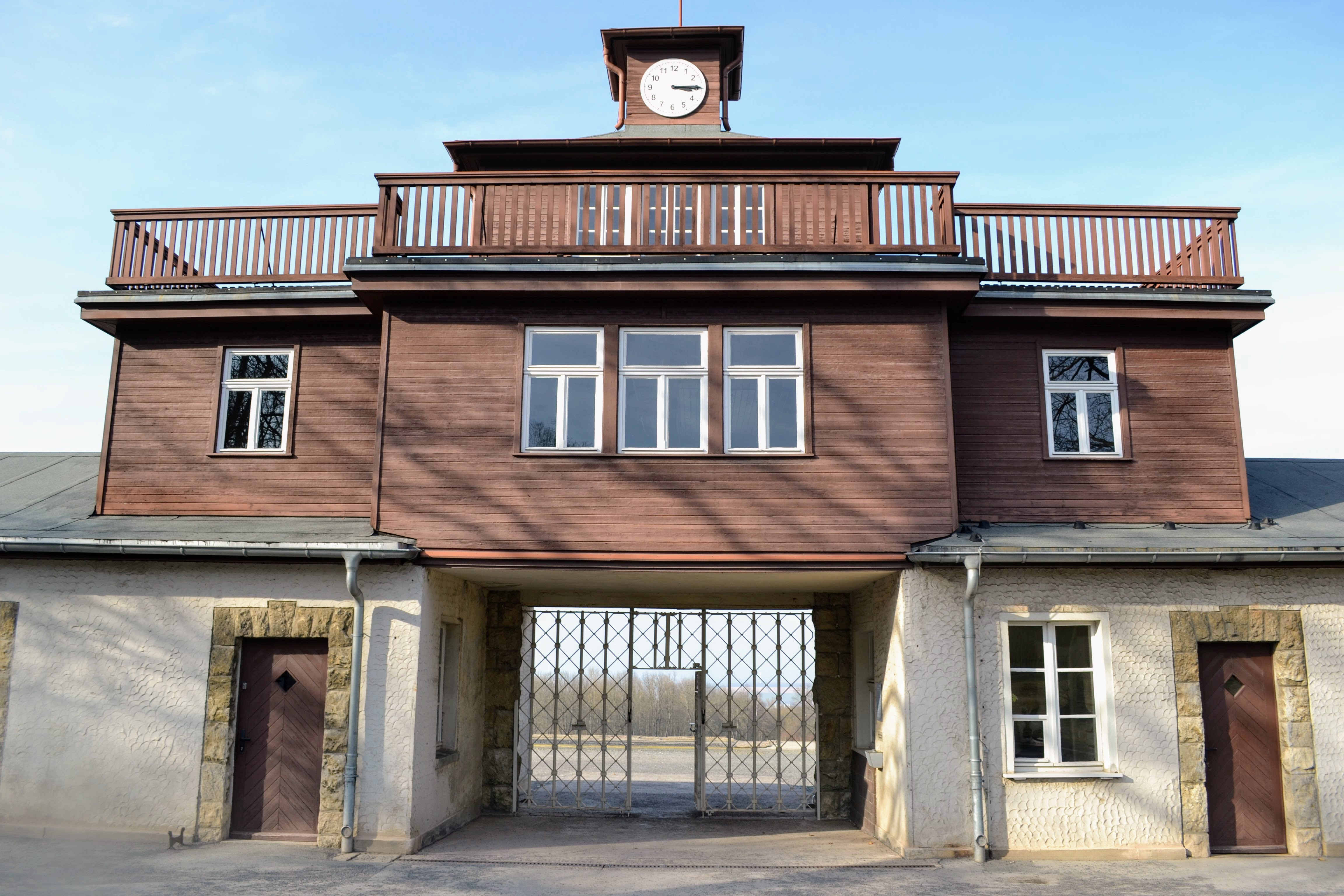 Gatehouse of Buchenwald concentration camp, whose clock shows the time 15:15, the moment of the liberation by North American troops